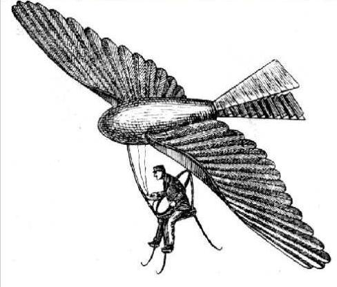 Ornithopter project by V. Kaderavek (1866)